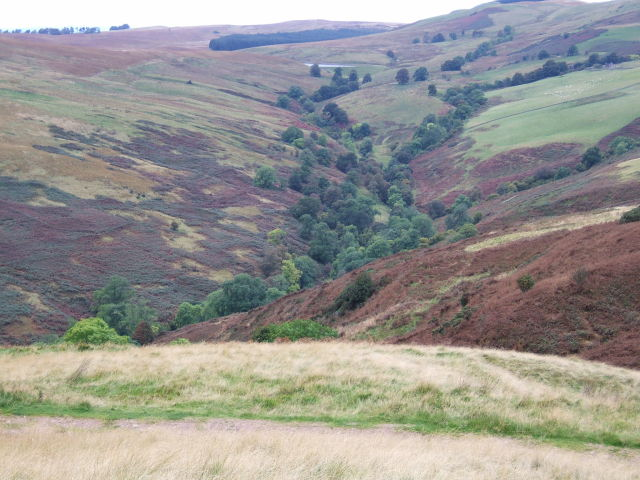 Upper Menstrie Glen from NS 853 981 looking WNW.